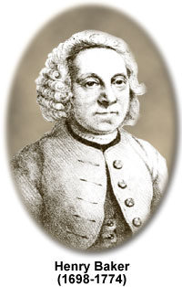 Henry Baker (1698-1774)